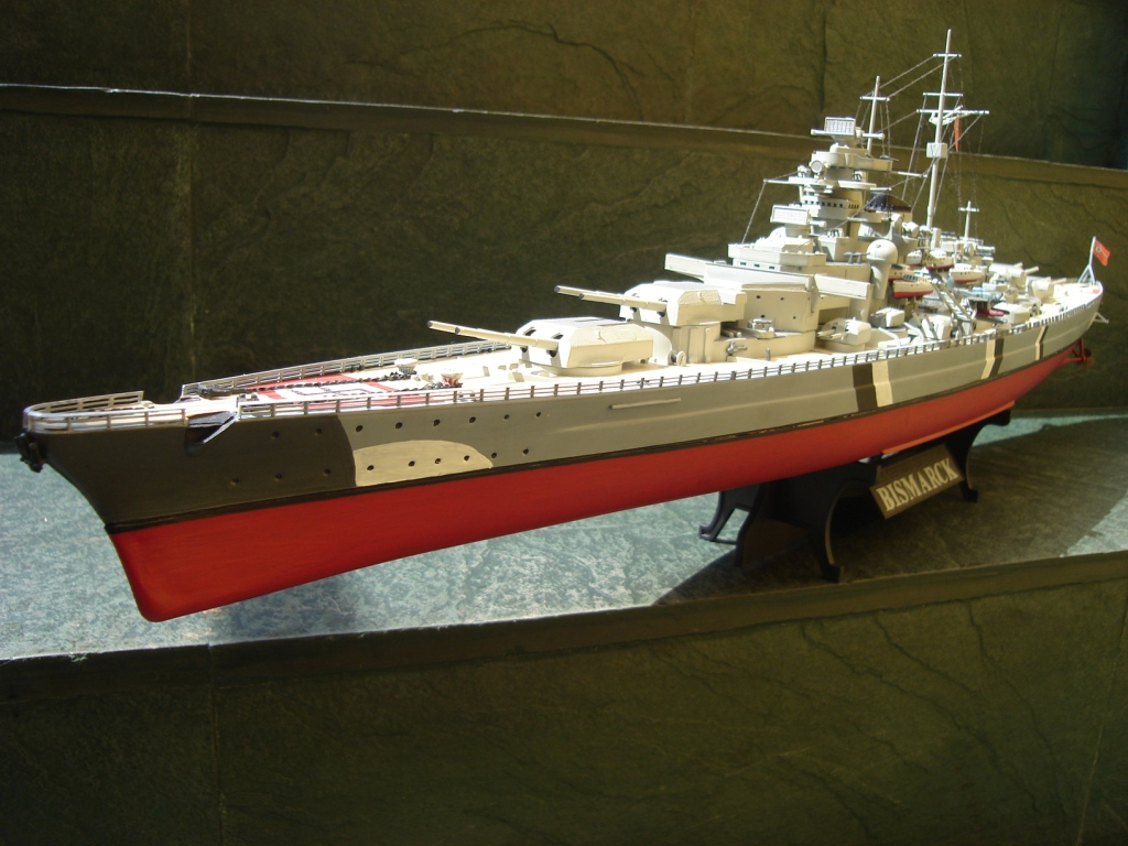 Bismarck